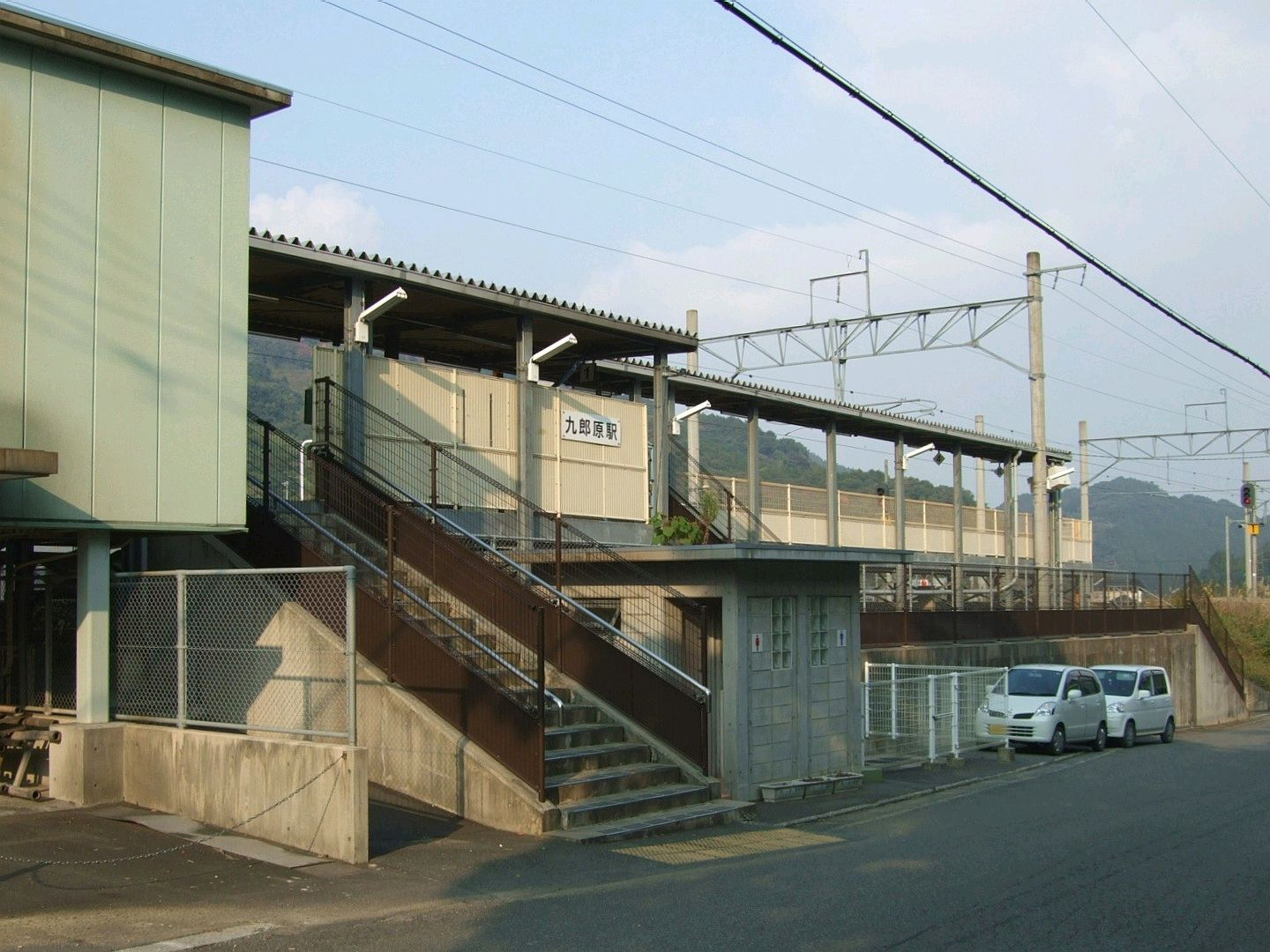 Kurobaru Station, Sasaguri Line (Fukuhoku Yutaka Line), Kyushu Railway Company.